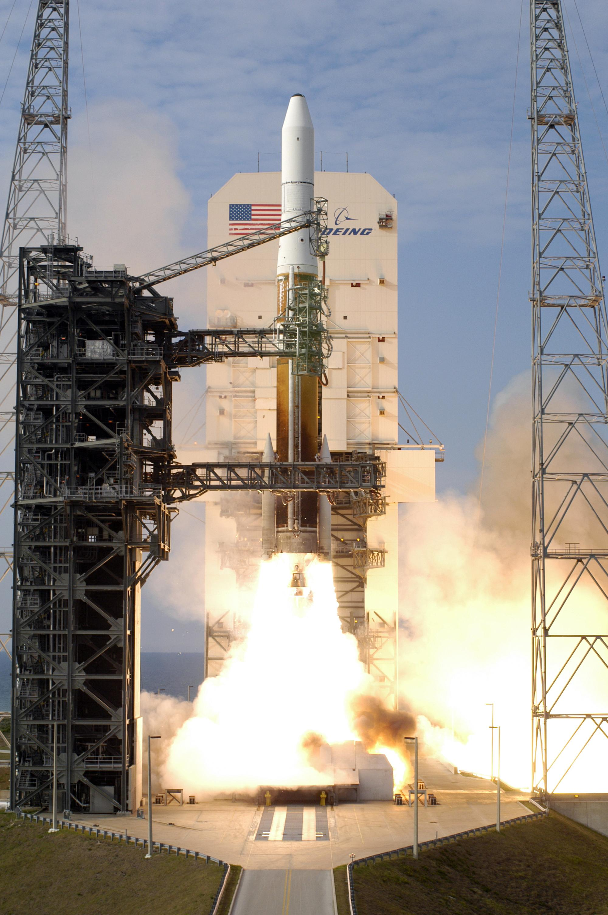 KENNEDY SPACE CENTER, FLA. – Flames and smoke billow out from under the Boeing Delta IV rocket at liftoff, carrying the GOES-N satellite. Liftoff from Launch Complex 37 at Cape Canaveral Air Force Station was on time at 6:11 p.m. EDT. GOES-N is the latest in the Earth-monitoring series of Geostationary Operational Environmental Satellites developed by NASA and the National Oceanic and Atmospheric Administration. By maintaining a stationary orbit, hovering over one position on the Earth's surface, GOES will be able to provide a constant vigil for the atmospheric "triggers" for severe weather conditions such as tornadoes, flash floods, hail storms and hurricanes.